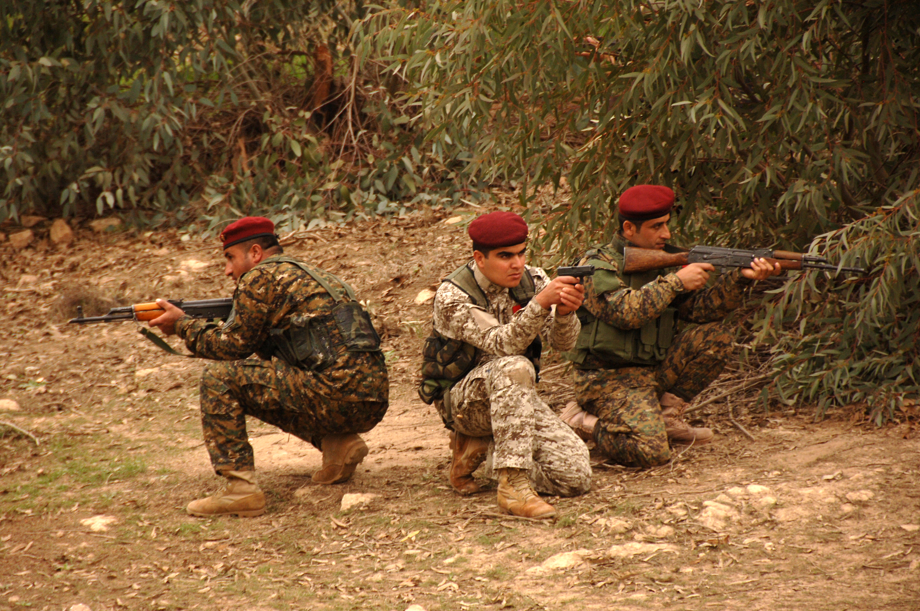 Peshmerga pull security, during combined check point training, on Forward Operating Base Marez, near Mosul, Iraq, Jan. 14, 2010.